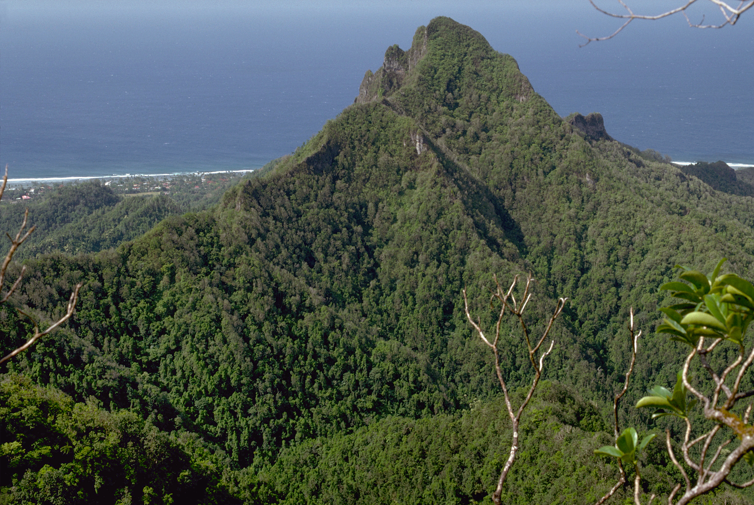 This is a view looking north at Ikurangi Peak from the route up Te Manga on Rarotonga (Cook Islands) in December 1987 or January 1988. It shows well preserved intact native forest. Scannned Kodachrome slide 007 079.